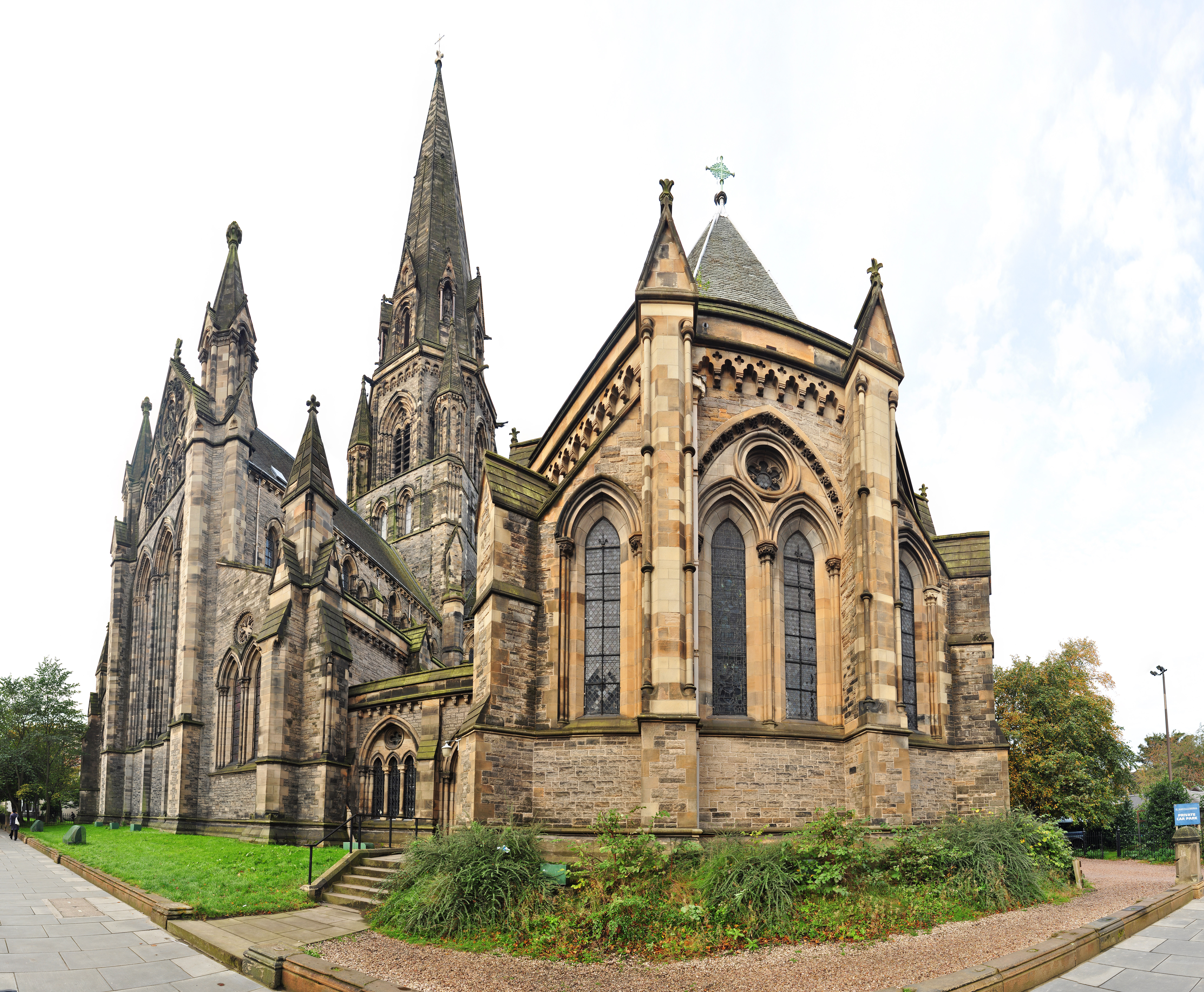 180° Panorama of the exterior of St. Mary's Cathedral, Edinburgh. Photo by Gregg M. Erickson